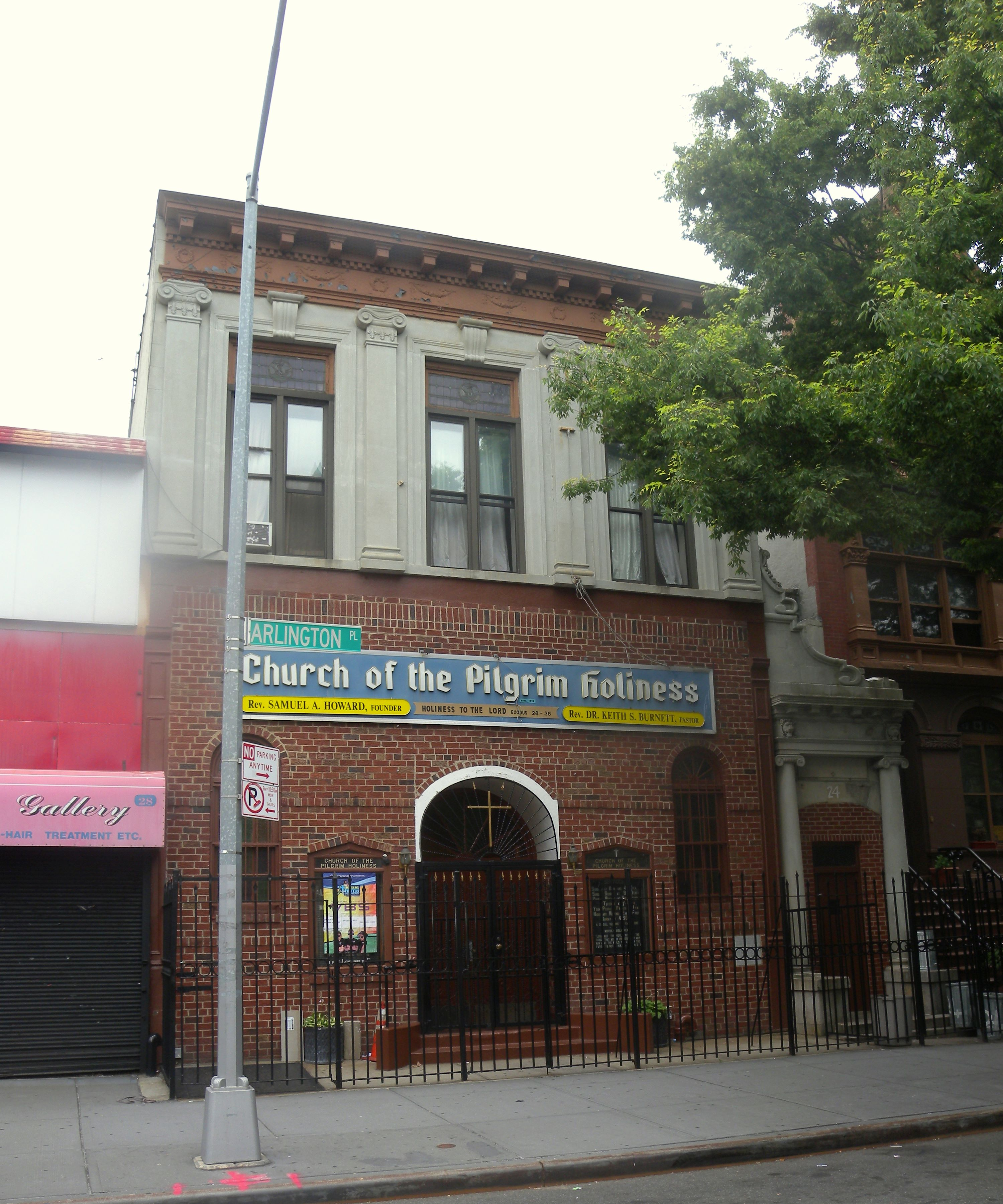 Looking west from Macon St across Arlington Place at Church of the Pilgrim Holiness on a cloudy day.